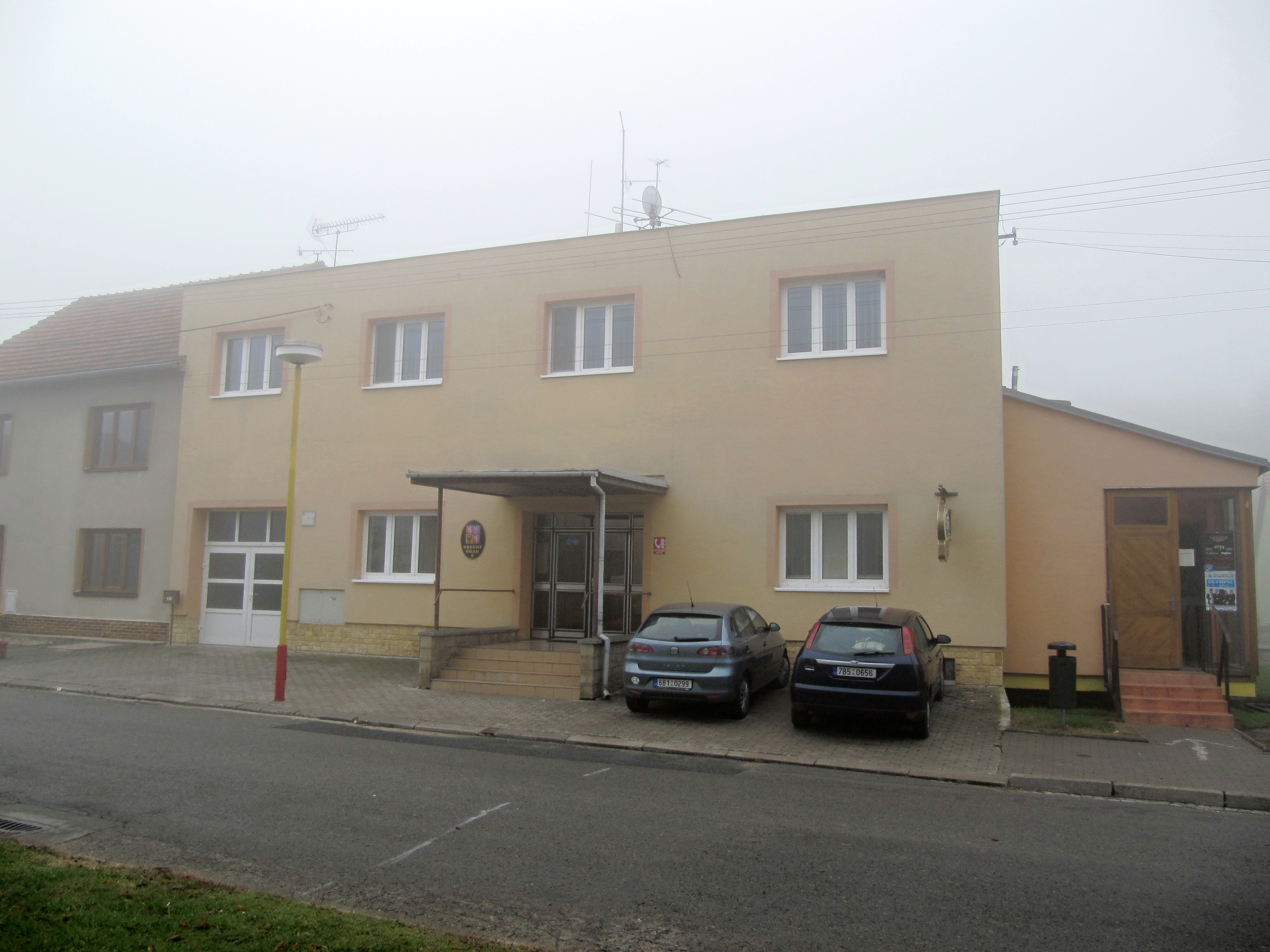 Milešovice in Vyškov District, Czech Republic. Municipal office.